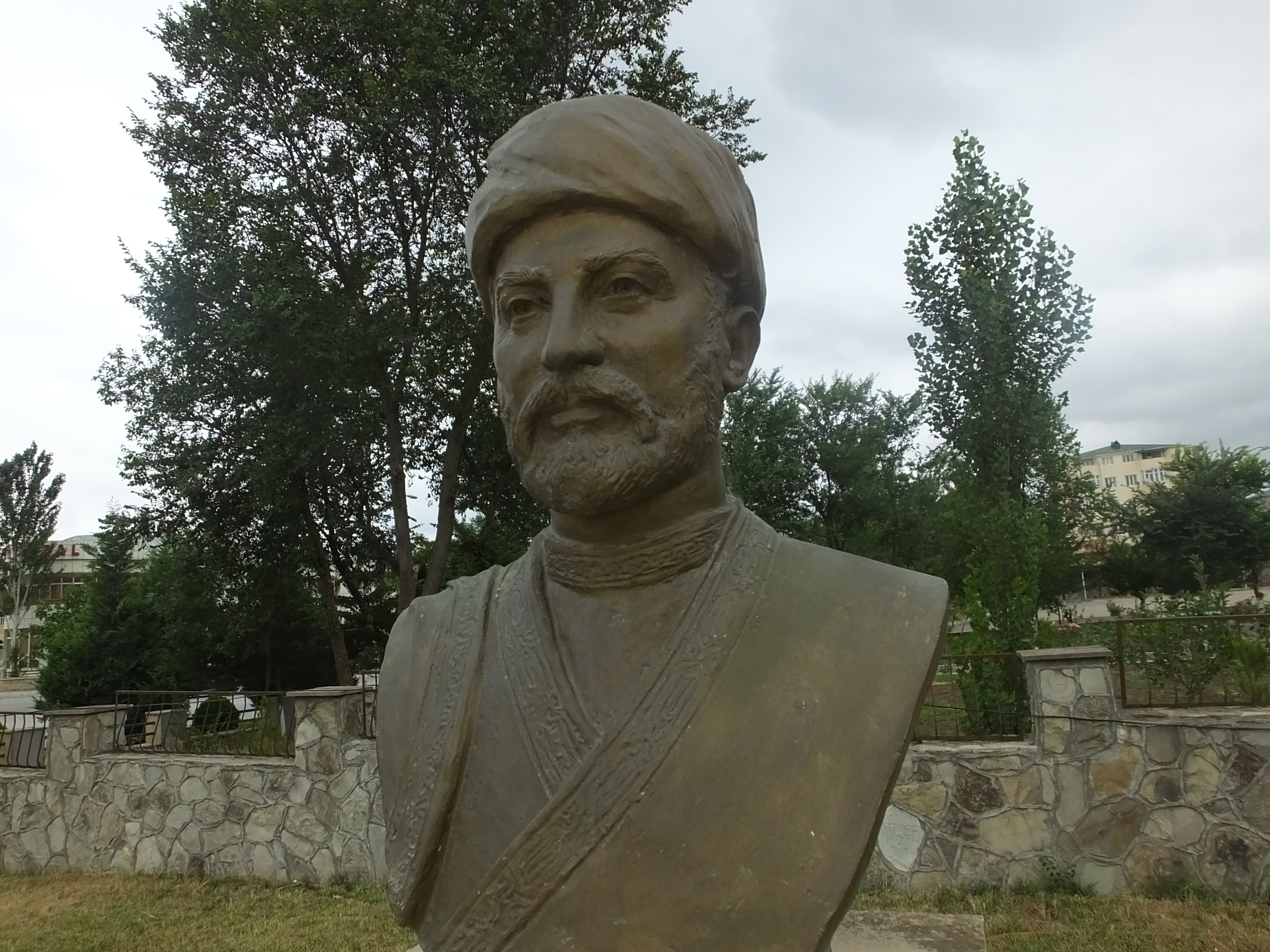 Picture of Khaqani's bust in Museum of History and Ethnography in Shamakhi taken by Aykhan Zayedzadeh during 2019 Summer Wikicamp Azerbaijan